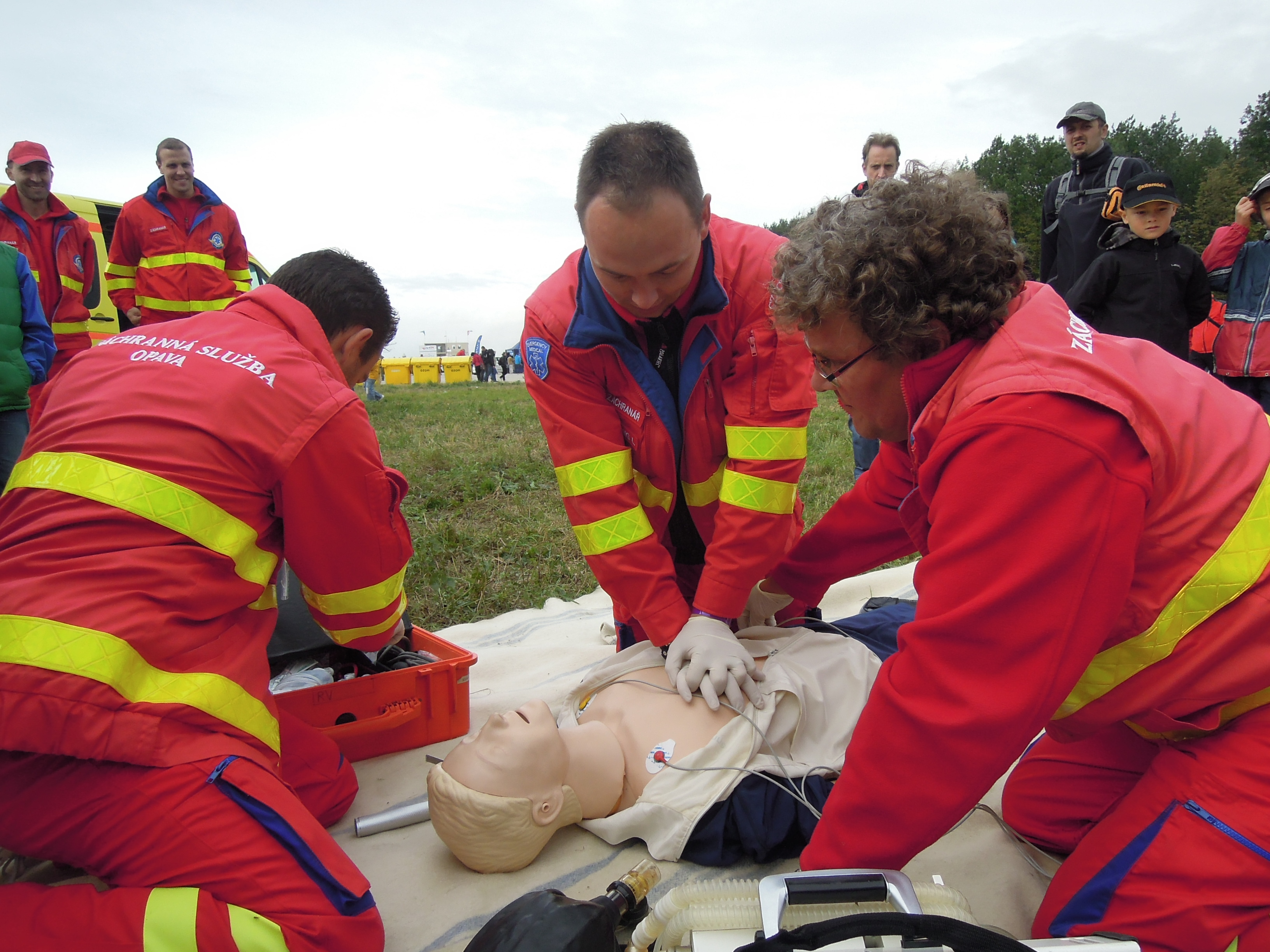 Paramedics of Zdravotnická záchranná služba Moravskoslezského kraje during cardiopulmonary resuscitation and endotracheal intubation, photo was taken during 2012 NATO Days in Leoš Janáček Airport Ostrava, Czech Republic